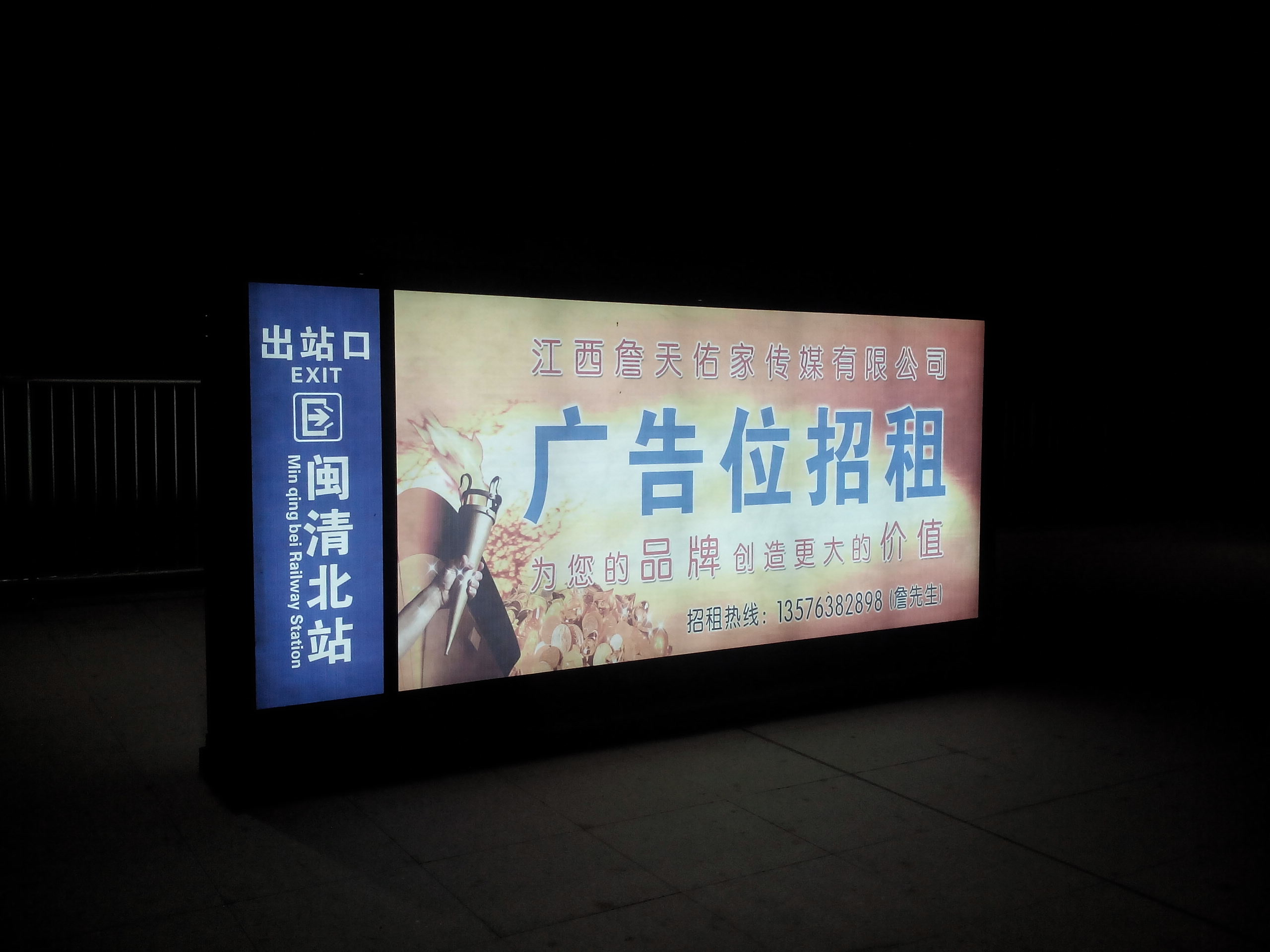 201508 Minqingbei Railway Station